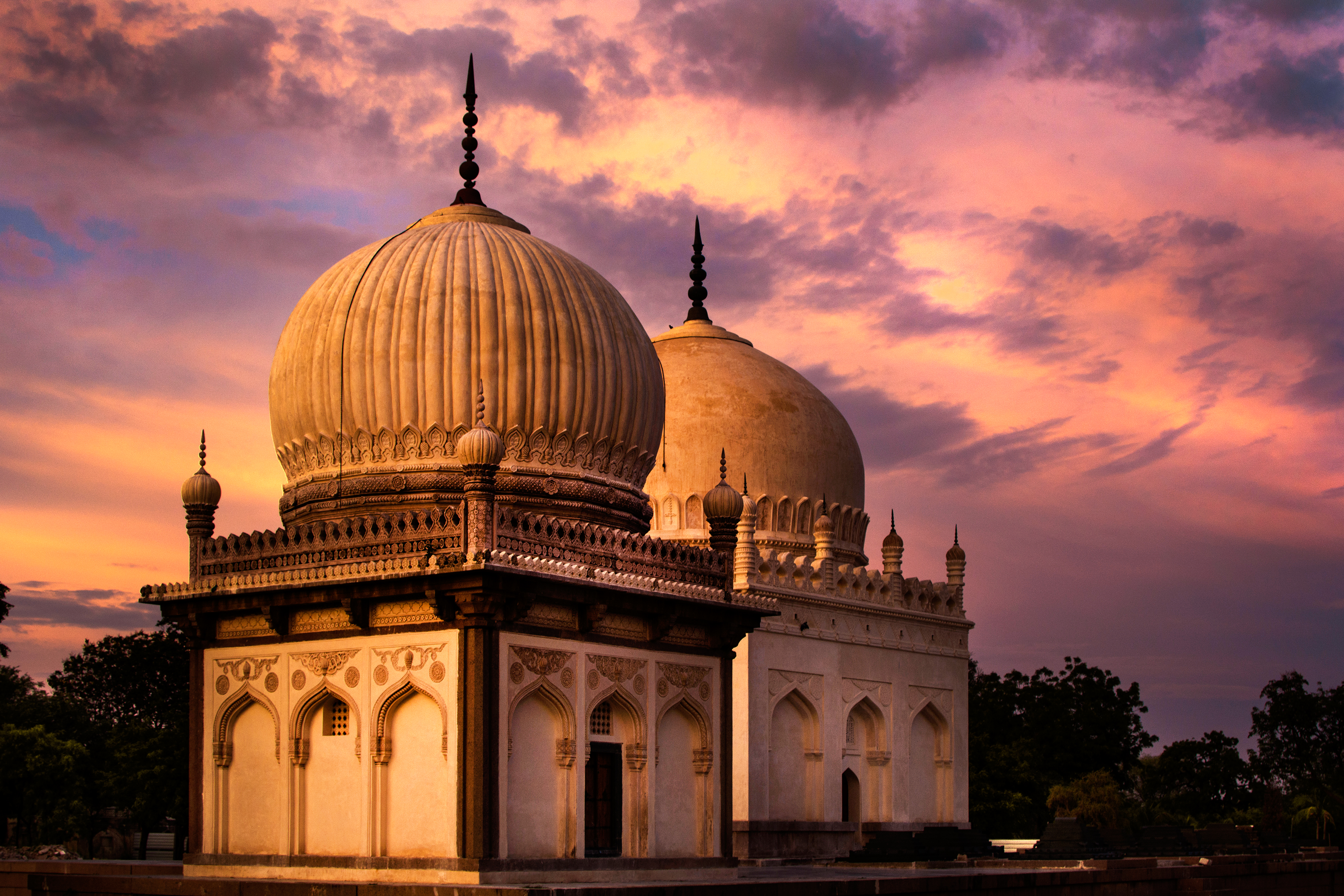 Hyderabad - Tangible Cultural Heritages